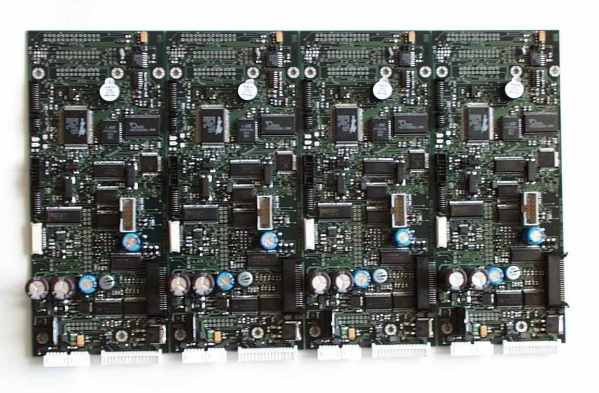 A PCB, comprising four identical sub-boards, prior to depanelisation (splitting into individual boards)